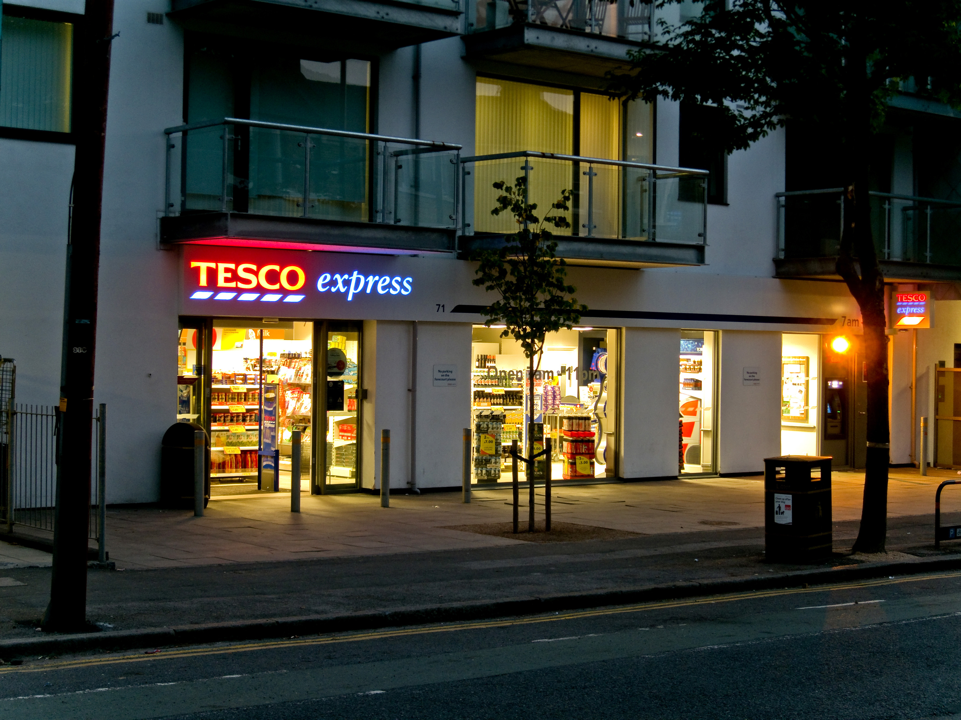 Tesco Express store near Emirates Stadium, Islington, London.